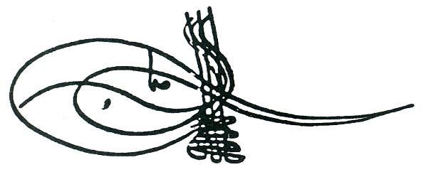 Tughra (i.e., seal or signature) of Mehmed III, Sultan of the Ottoman Empire (1595-1603). An explanation of the different elements composing the tughra can be found here.